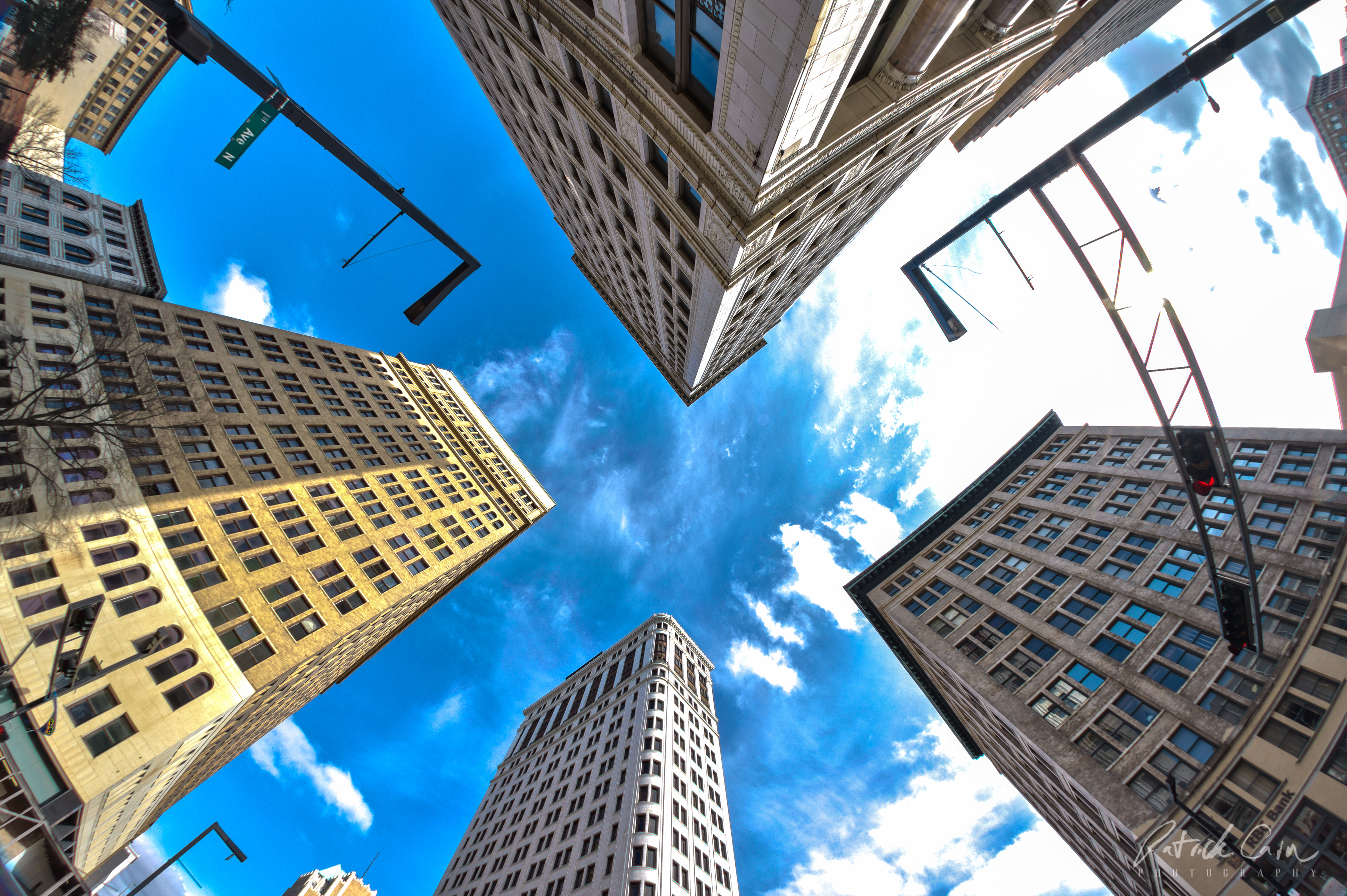 The Heaviest Corner on Earth in Birmingham, Alabama